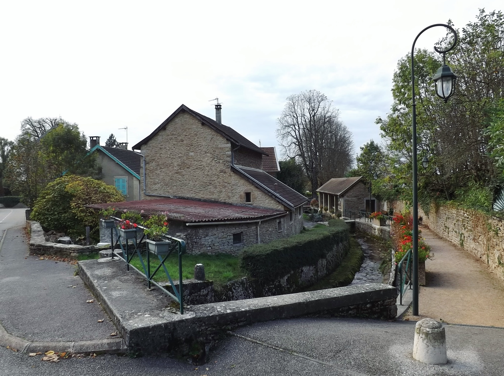 Sight of the French city of La Balme - Les Grottes footpath and lavoir next to the river coming from the caves, in Isère.